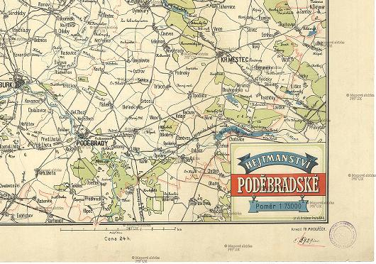 Historical map of Poděbrady region, Czech Republic